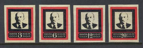 USSR stamp, Lenin's memories, 1924, CPA #195—198.